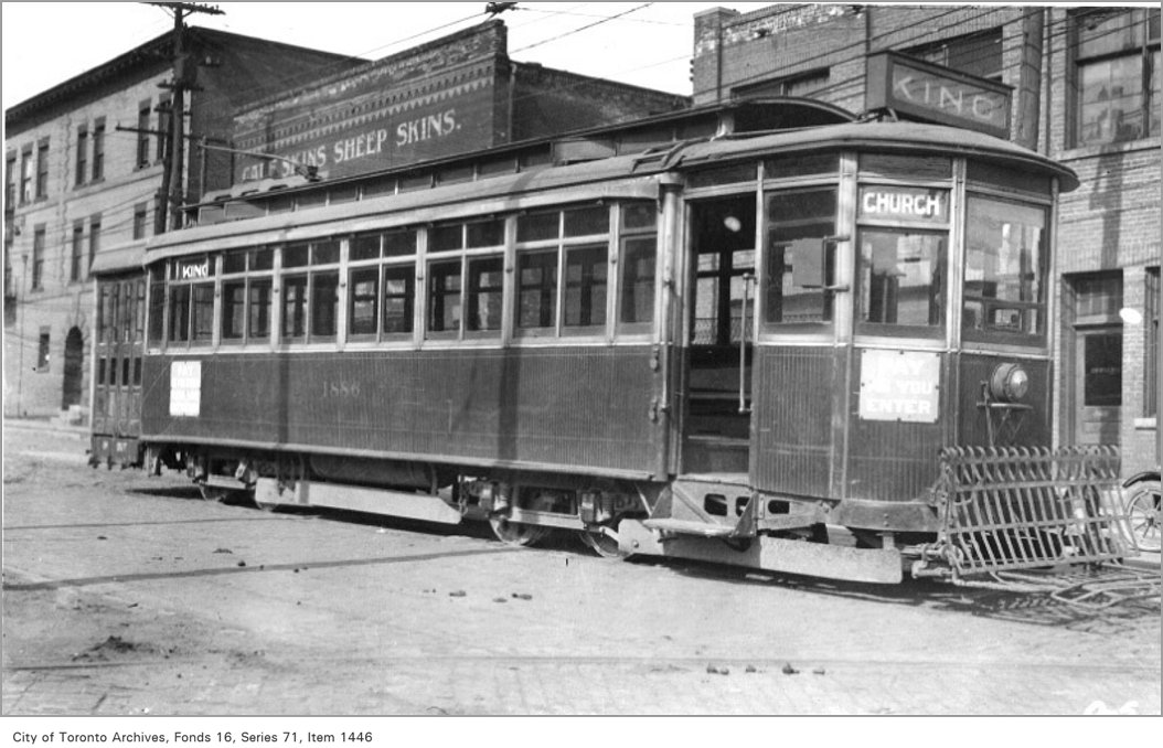 Creator: Alfred J. PearsonDate: 1921Archival Citation: Fonds 16, Series 71, Item 1446Credit: City of Toronto Archives is in the public domain and permission for use is not required.